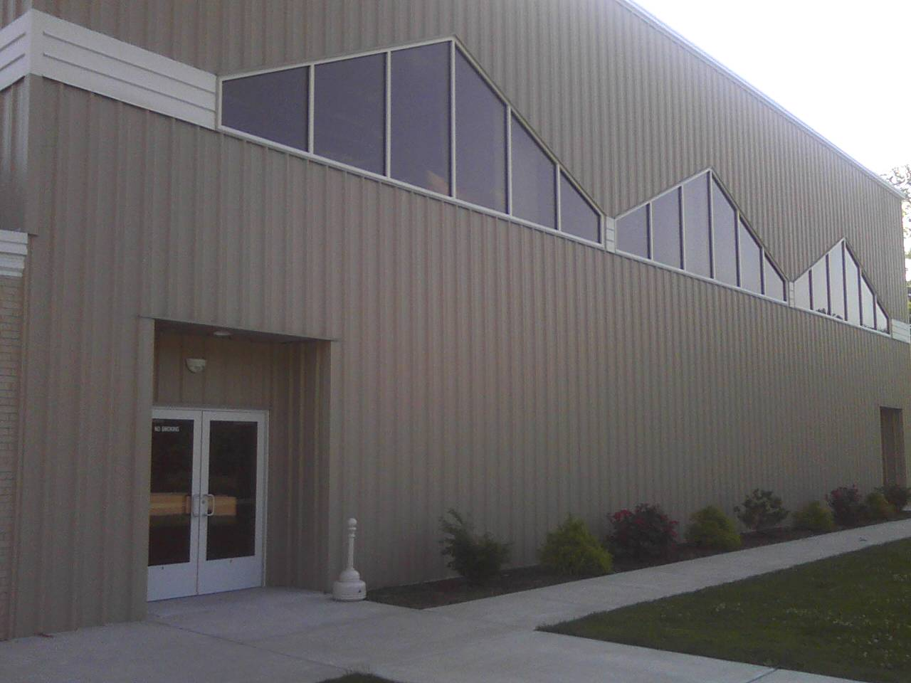 Photograph of Hanover's Activity Center